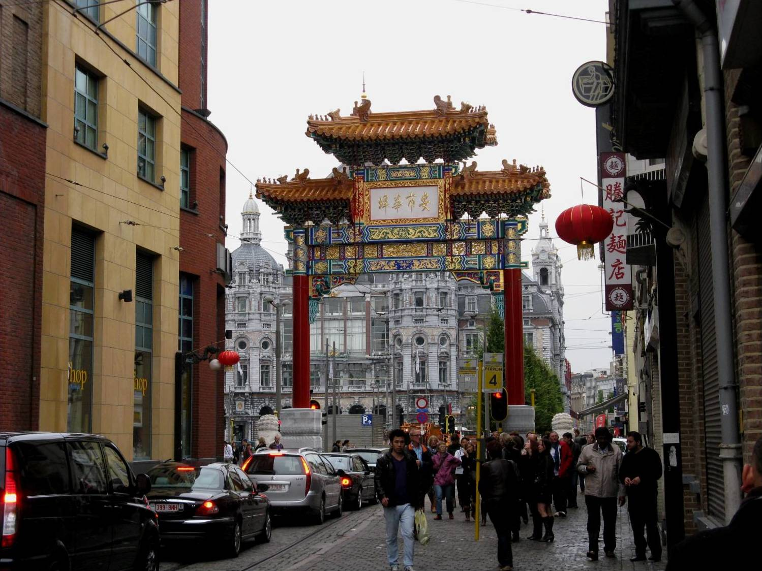 Gate for China Town Antwerp